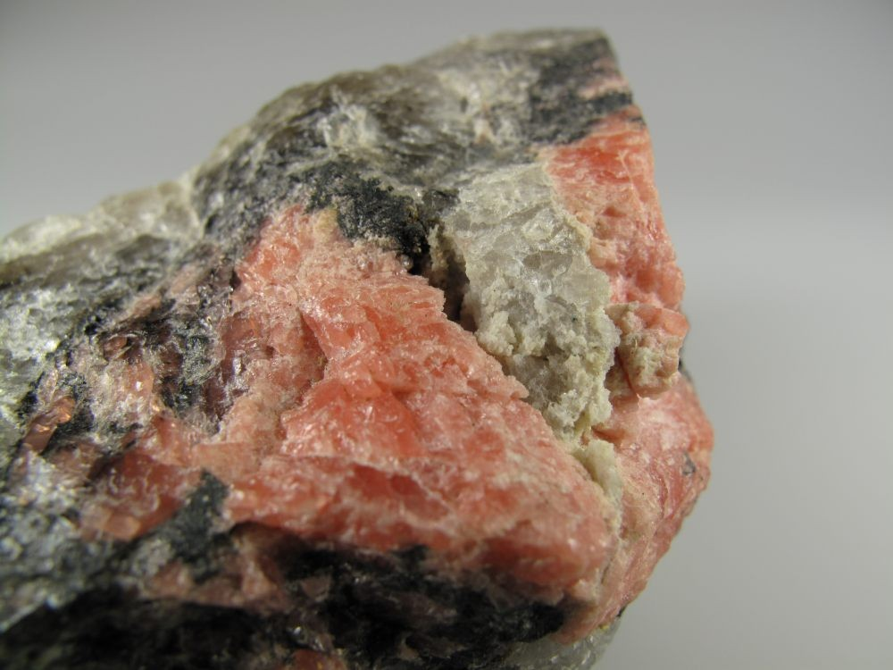 Hydroxylapatite and Triplite (Size: 4 x 4 cm) Locality: Morefield Mine (Morefield Pegmatite), Winterham, Amelia County, Virginia, USA Original description: White apatite(CaOH) form as a secondary phosphate from the salmon pink triplite (4x4cm) Collection of MWylie from the owner of the Morefield Mine, Sam. Photos by Betsy Martin.